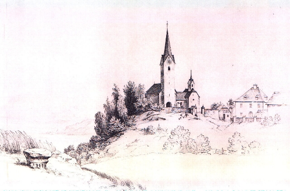 Fürstenstein (in its position as found in 1860; near Karnburg, Austria), Church of Karnburg in the background